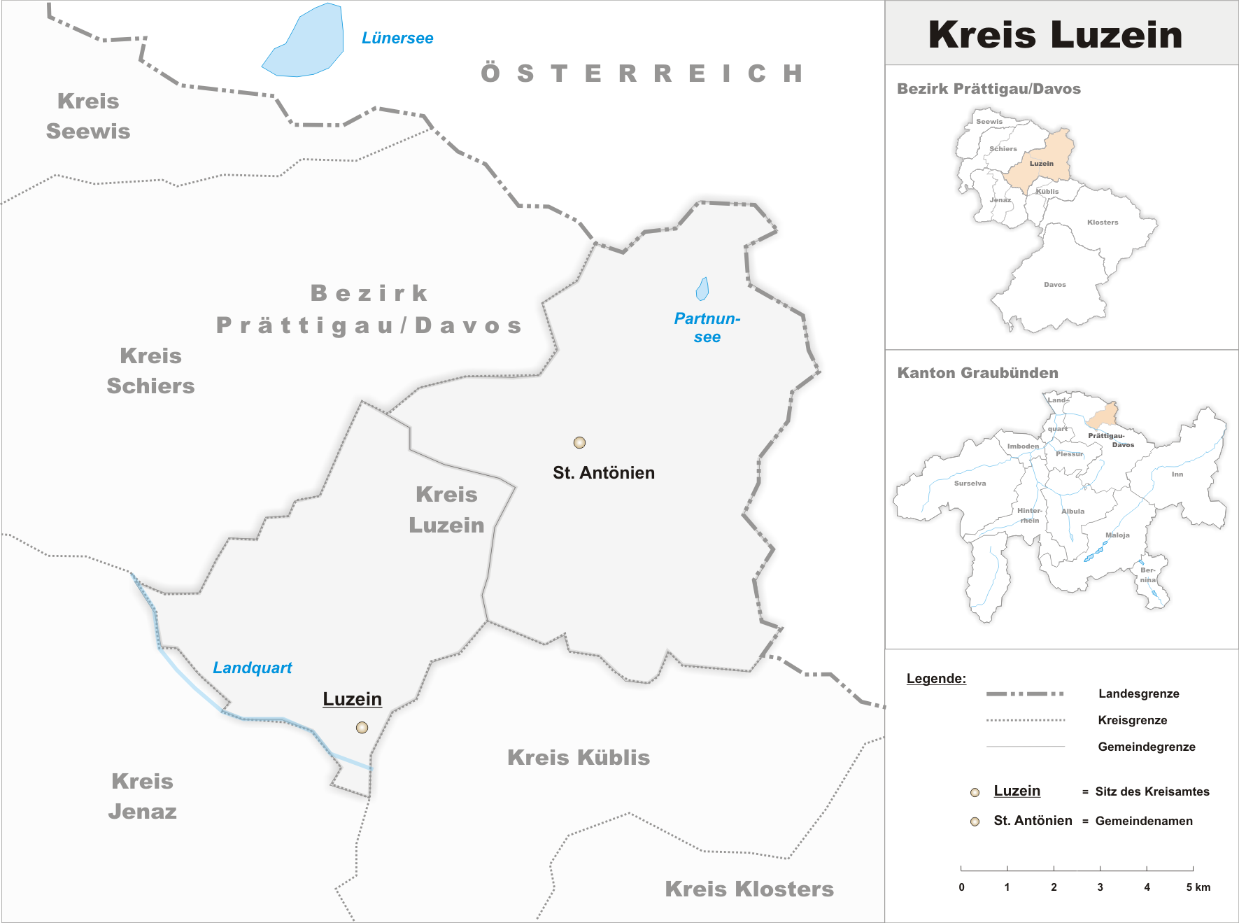 Municipalities in the circle of Luzein